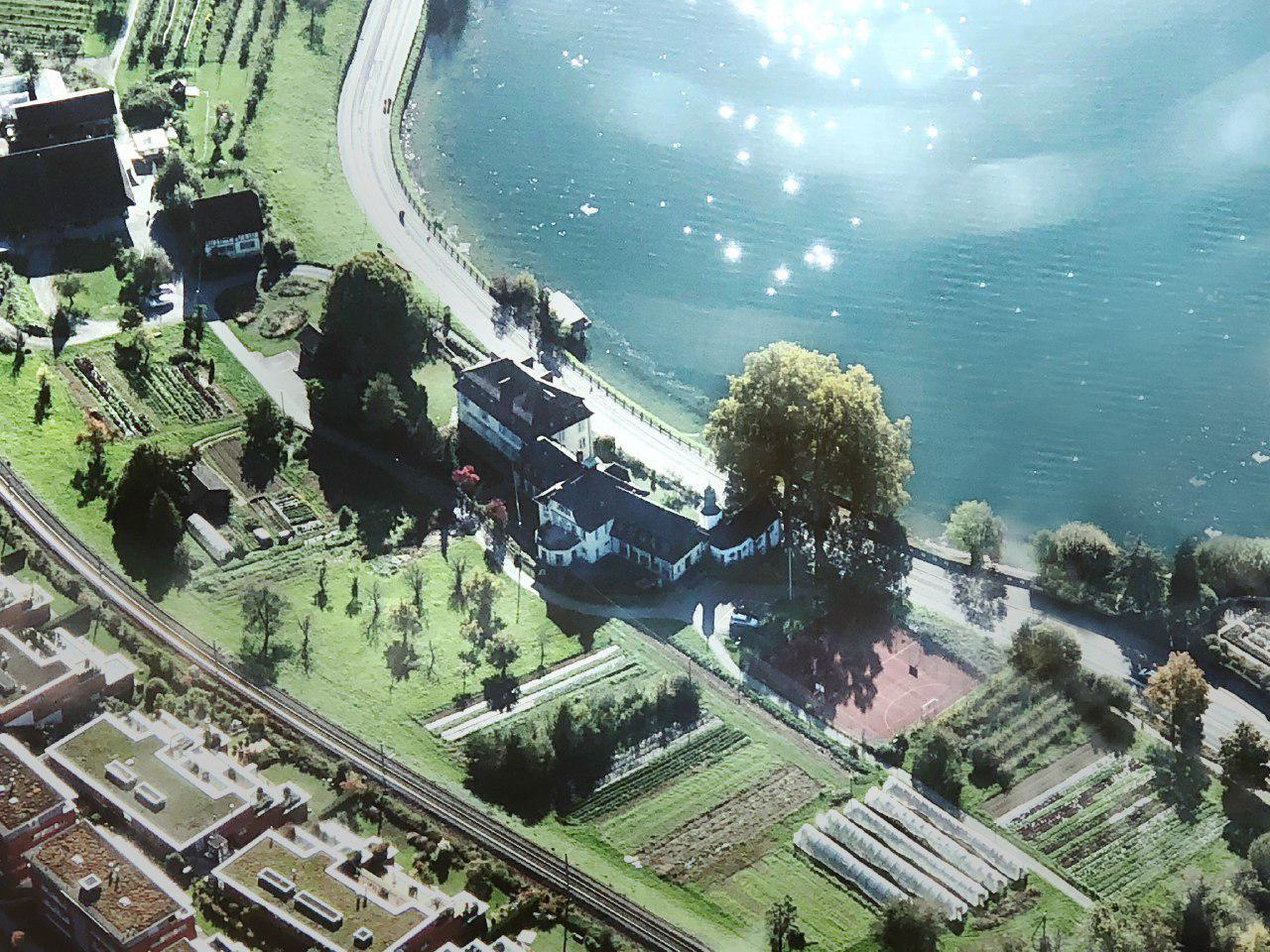 Aerial view of the Salesianum building located in the Canton of Zug photographed in the year of 2018